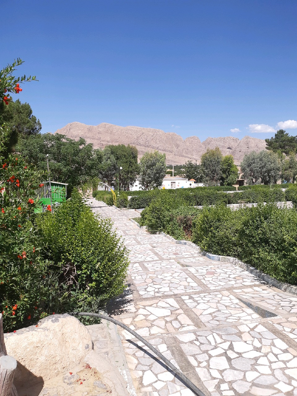 kermanpark